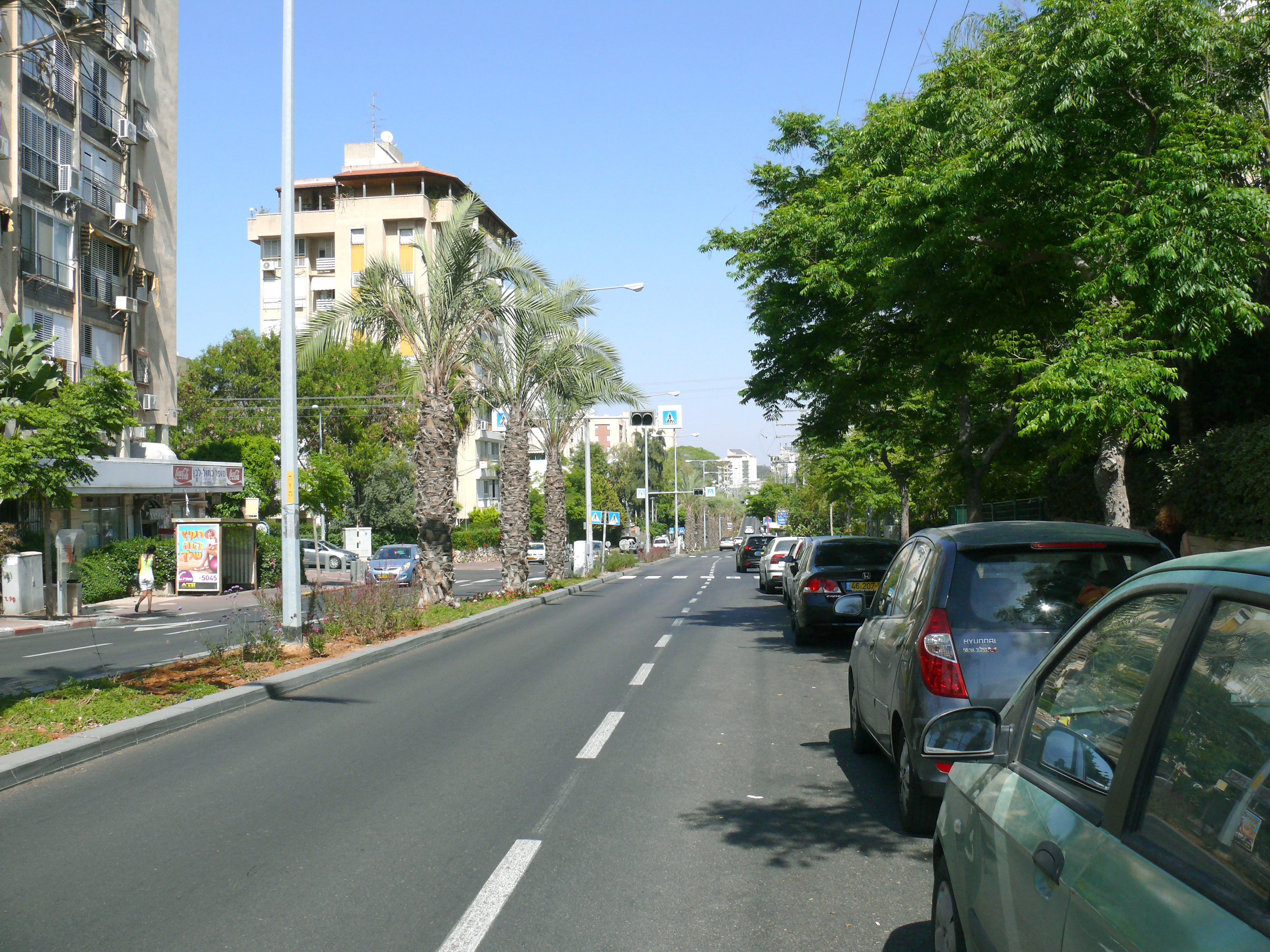 Jerusalem boulevards, Rishon LeZion, Israel